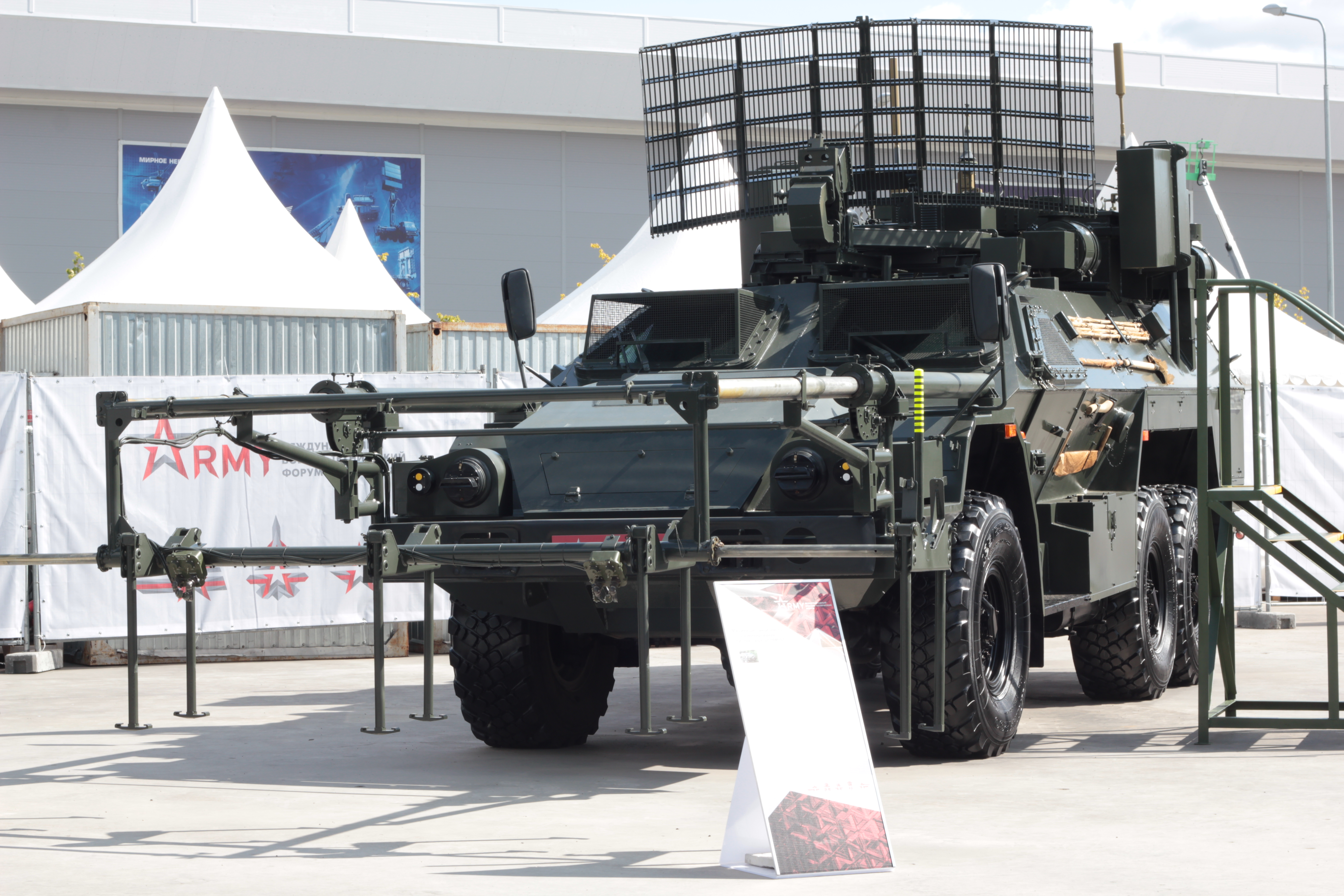 15M107 Listva